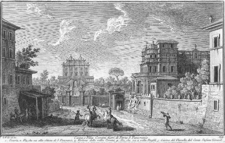 1) Tavern; 2) Street leading to S. Pancrazio; 3) Entrance to Villa Corsini; 4) Street leading to Villa Pamphilj; 5) Casino del Vascello.